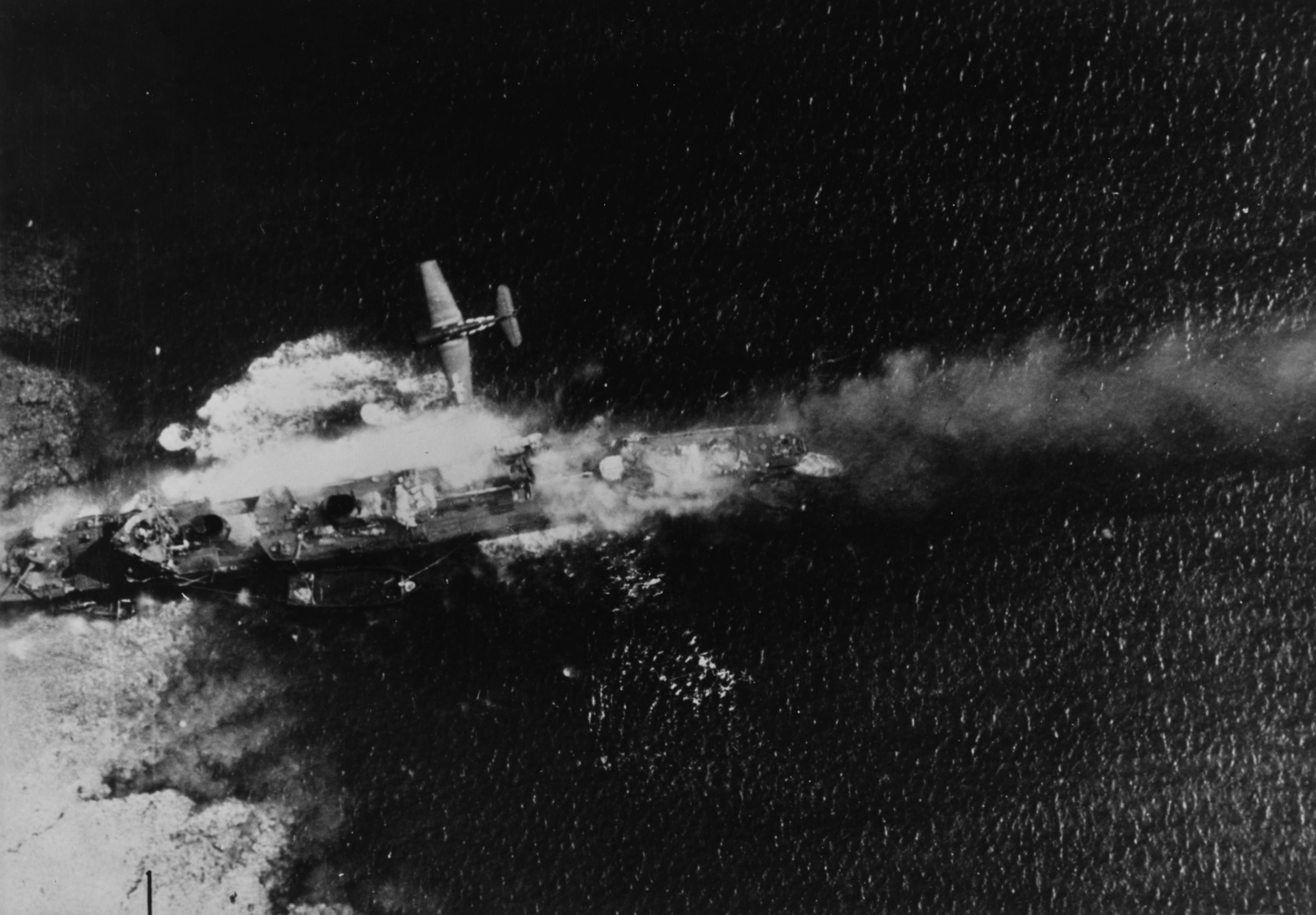 The U.S. Navy Grumman F6F-3 Hellcat from Fighting Squadron 9 (VF-9) flies over the beached Japanese destroyer Tachikaze, during Task Force 58's strikes on the Japanese naval base at Truk, Caroline Islands, 16-17 February 1944. VF-9 was assigned to Carrier Air Group 9 (CVG-9) aboard the aircraft carrier USS Essex (CV-9). On 4 February 1944, Tachikaze ran aground at Kuop Atoll in Truk Lagoon while returning from Rabaul, and remained stranded there despite efforts to free her. During the Allied "Operation Hailstone" 17–18 February, Tachikaze suffered heavy strafing followed by a torpedo hit in the engine room, which sank the ship by the stern.